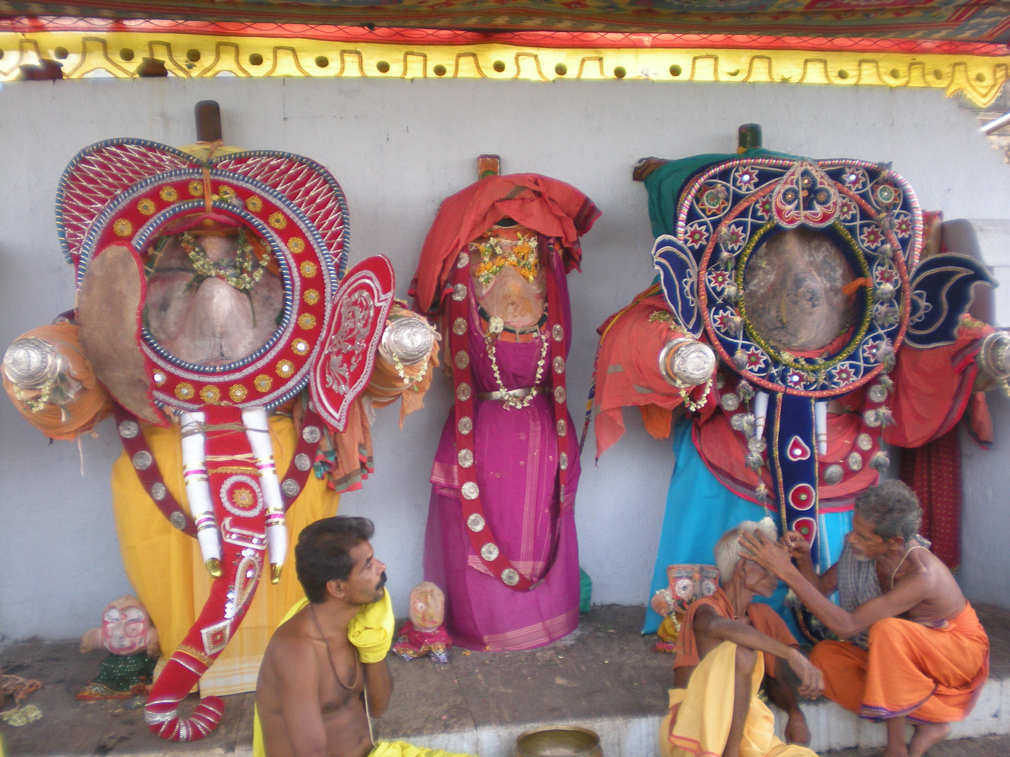 The lord Jagannath being dressed elephant (Hati Vesa) along with Balabhadra (elder brother) and Subhadra (younger sister) sits on Snnan bedi (bath altar) on the auspicious day of Snnan Purnima.